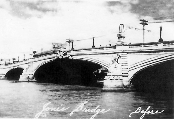 Photo of the Jones Bridge before Japanese Attack in 1945